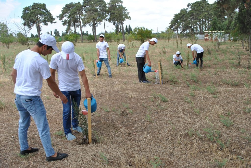 Könüllü gənclər eko aksiyada